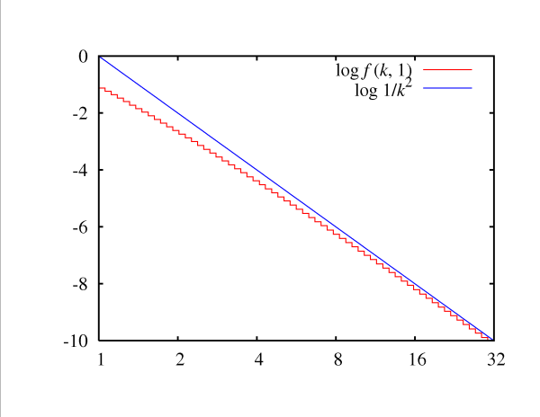 gnuplot source available on request